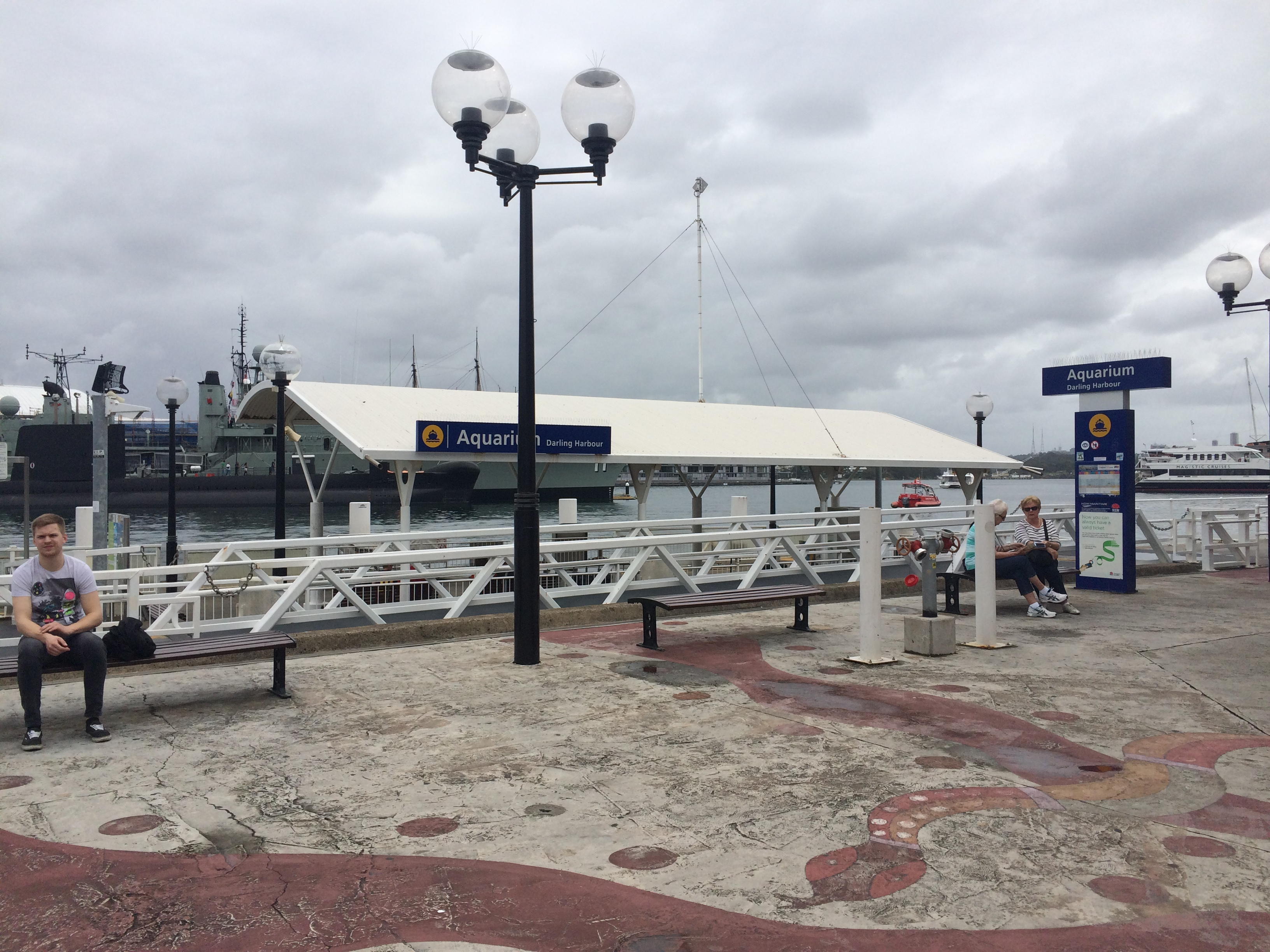 A view of the Aquarium ferry wharf, looking across from the Sea Life Sydney Aquarium. The wharf was originally a stop on the Darling Harbour service on the Sydney Ferries network. Since 2010, however, services had been terminated, and commercial passenger services have since used the wharf as a terminus, such as the Sydney Harbour Eco Hopper. The wharf still retains its State Transit-era Sydney Ferries livery.